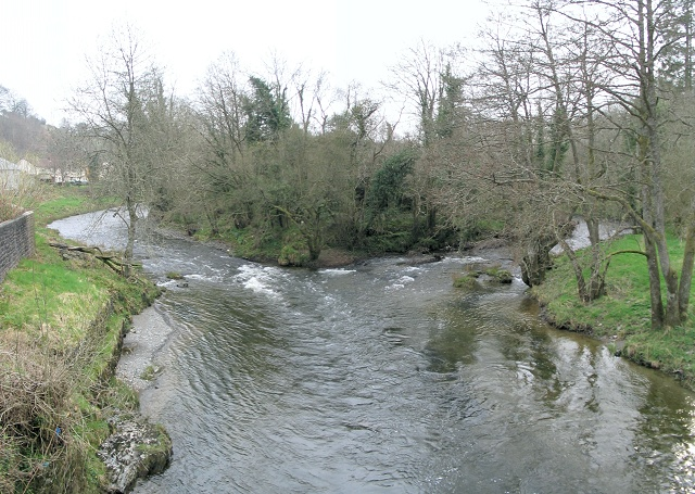 Island in river Irfon at Llangammarch Wells The river Irfon splits to flow around this island and can be seen looking southwest from the bridge in the town. The river Cammarch (which gives the town its name) is not visible, but joins the Irfon upstream, behind the island.